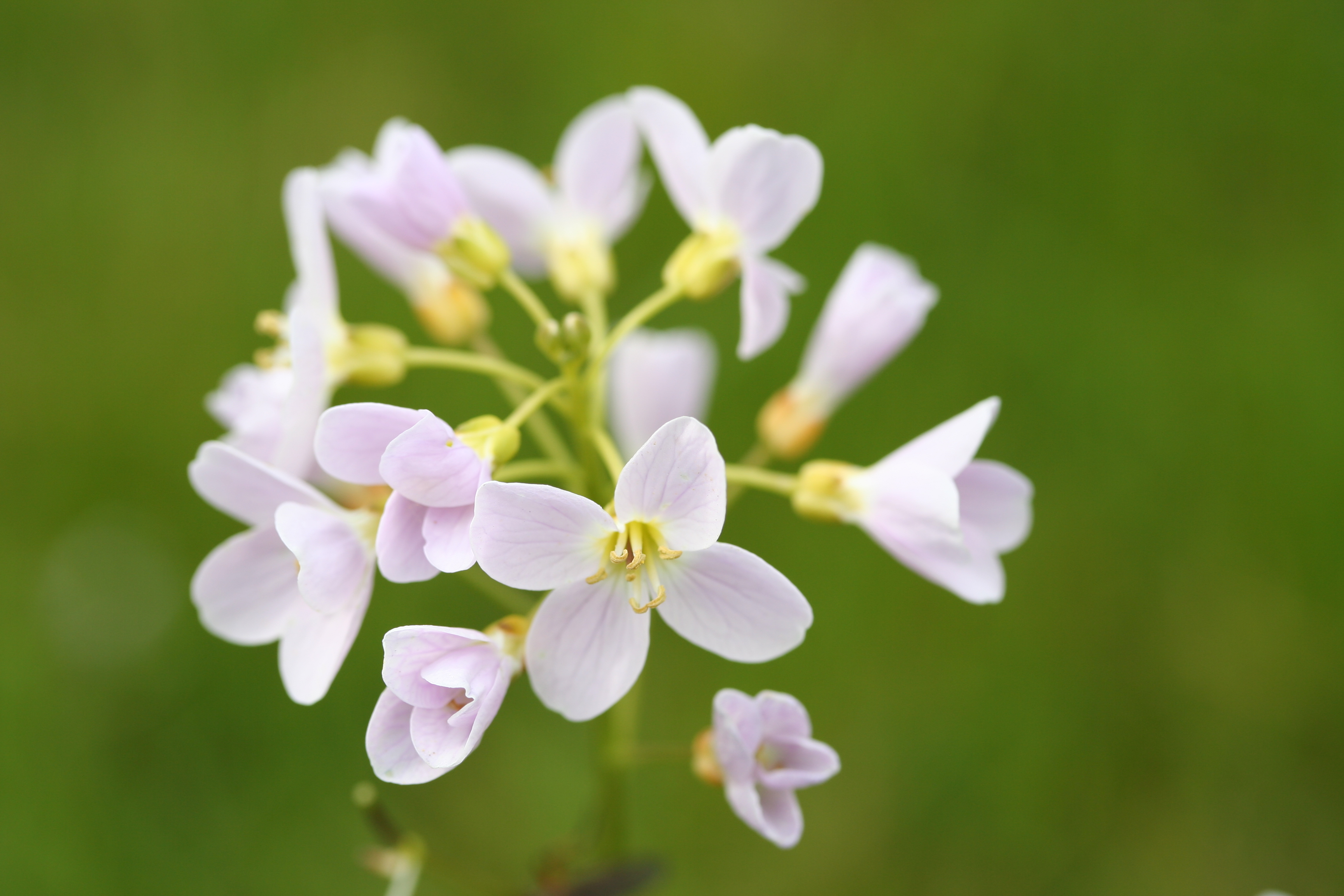 Cardamine pratensis 30 april 2006 IJmuiden, the Netherlands